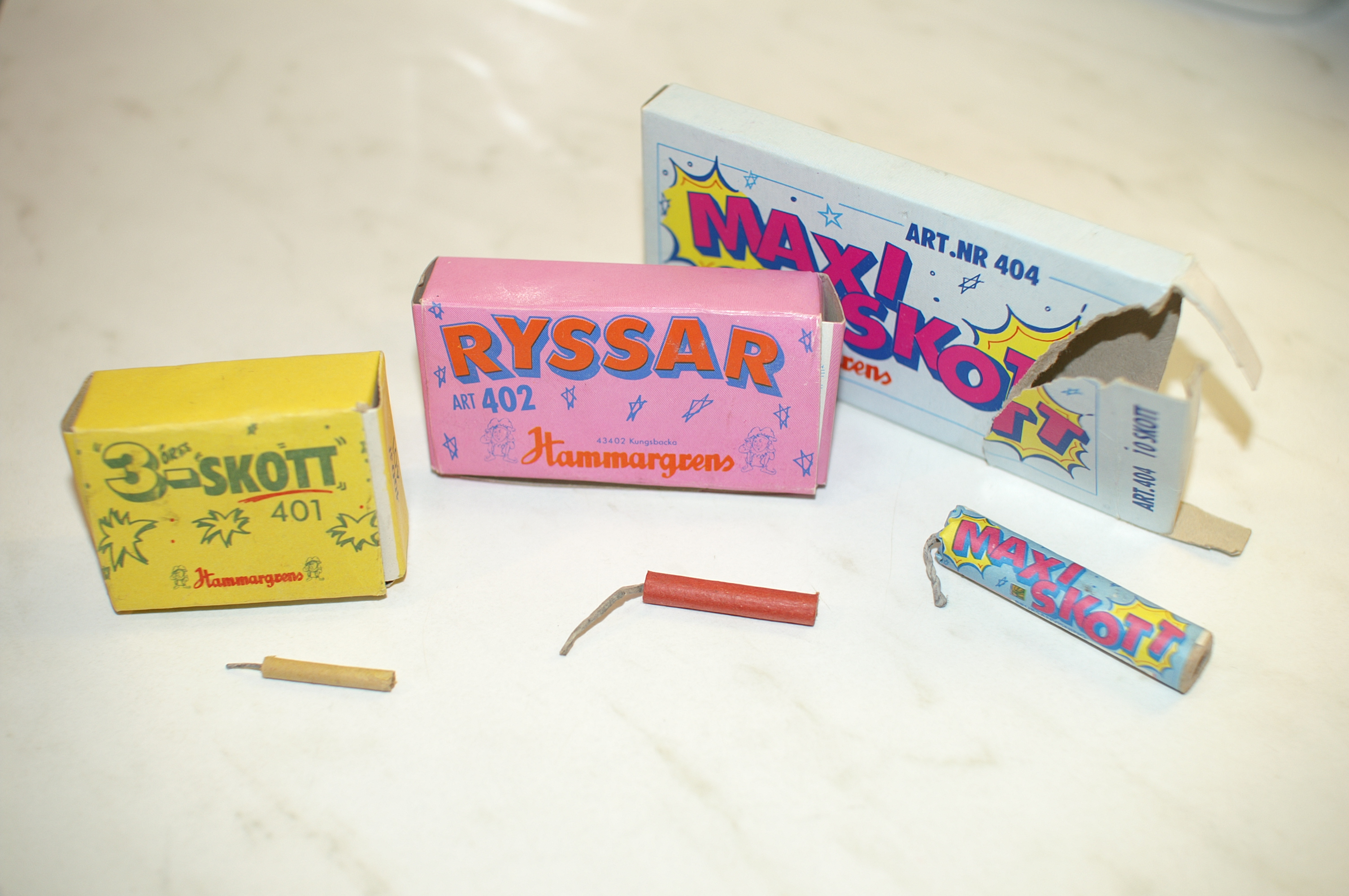 Swedish firecrackers from the manufacturer Hammargrens, cirka 1993.